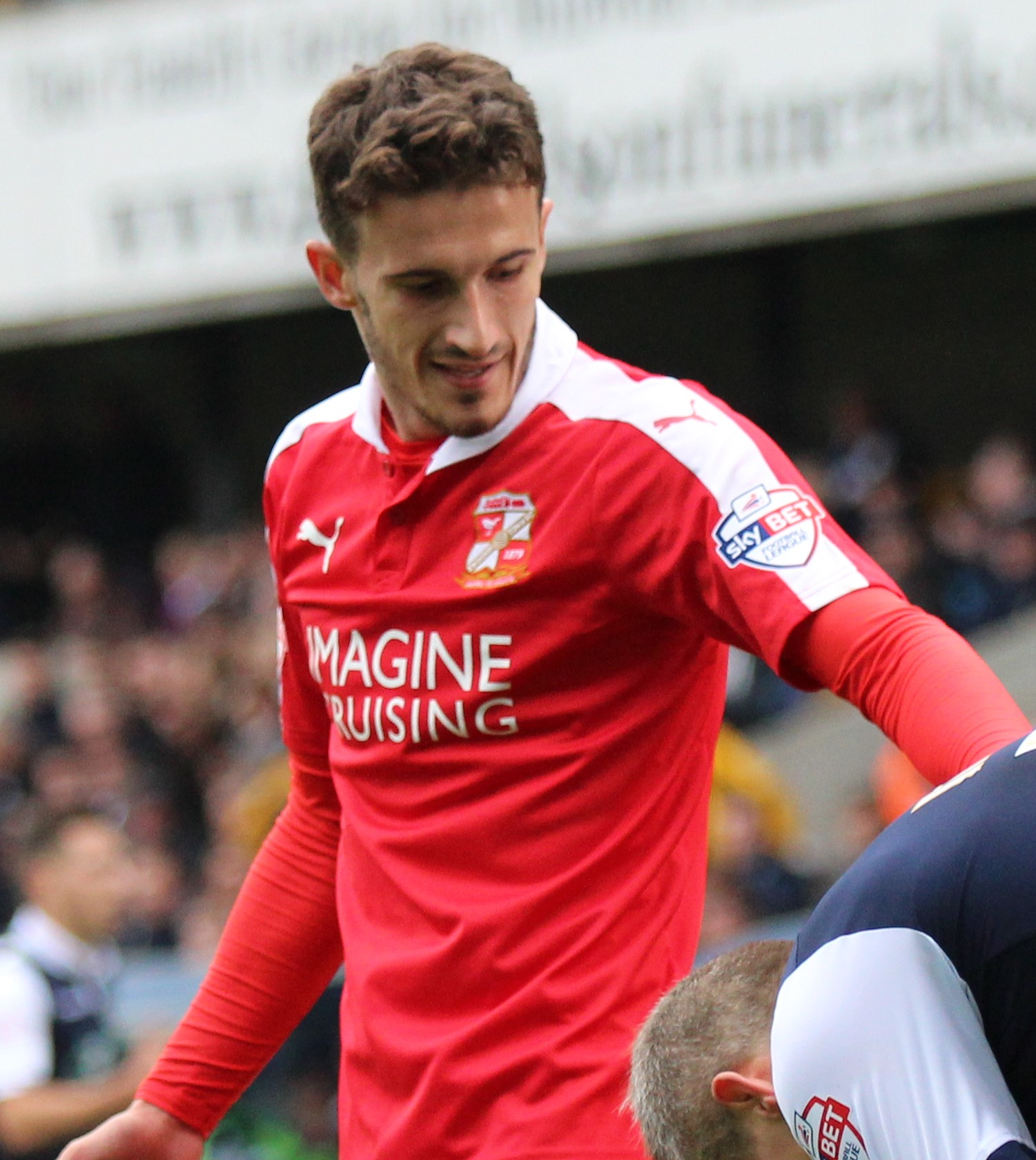 Bradley Barry of Swindon Town complains to Steve Morison of Millwall.